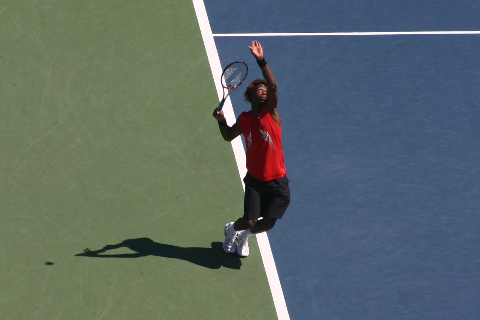 Gael Monfils at the 2008 US Open